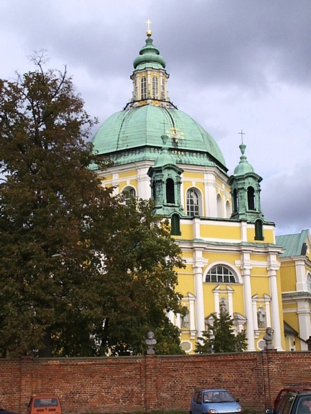 The Church on the Holy Hill - Głogówko near Gostyń, Poland